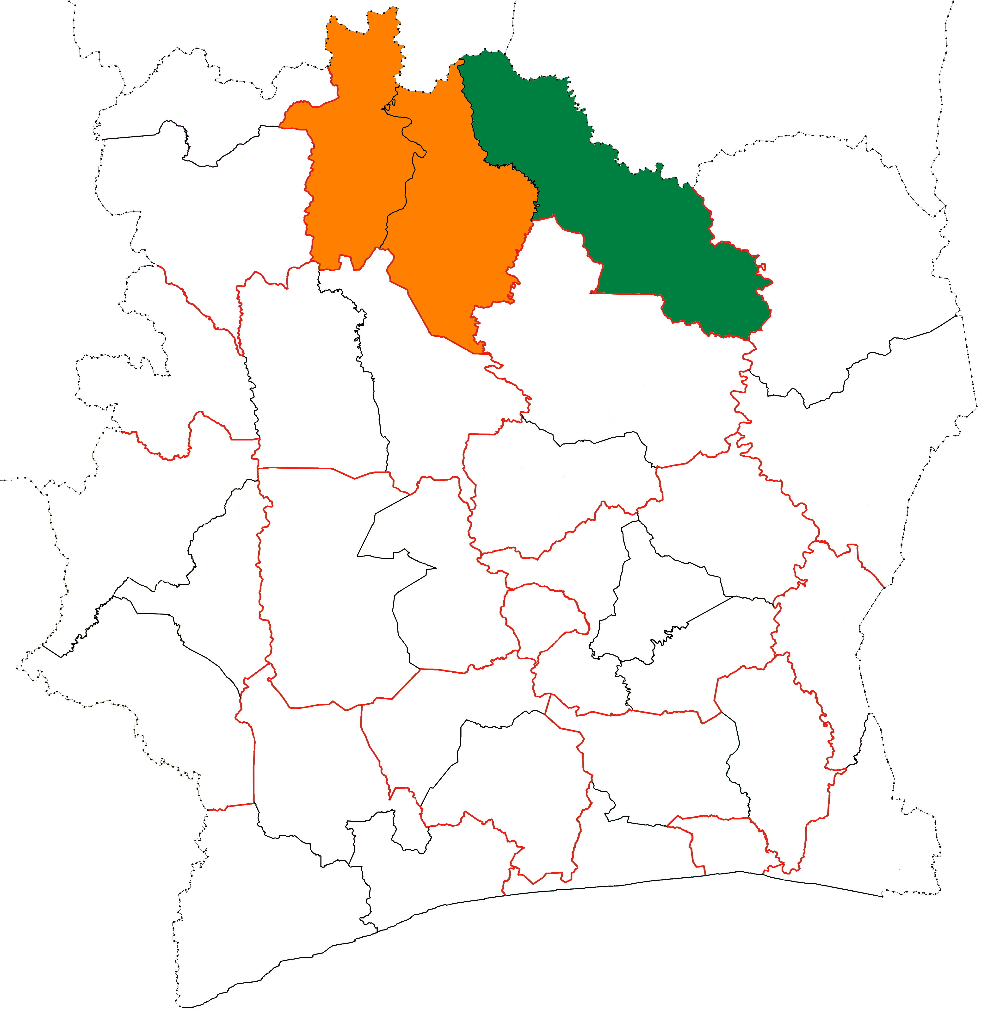 The location of Tchologo region (green) in Côte d'Ivoire. The other shaded areas represent the other parts of Savanes District.